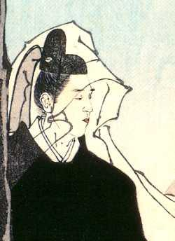 65th Tennō Kazan (花山天皇 Kazan-tennō), who is presumed to have reigned Japan from 984 till 986.